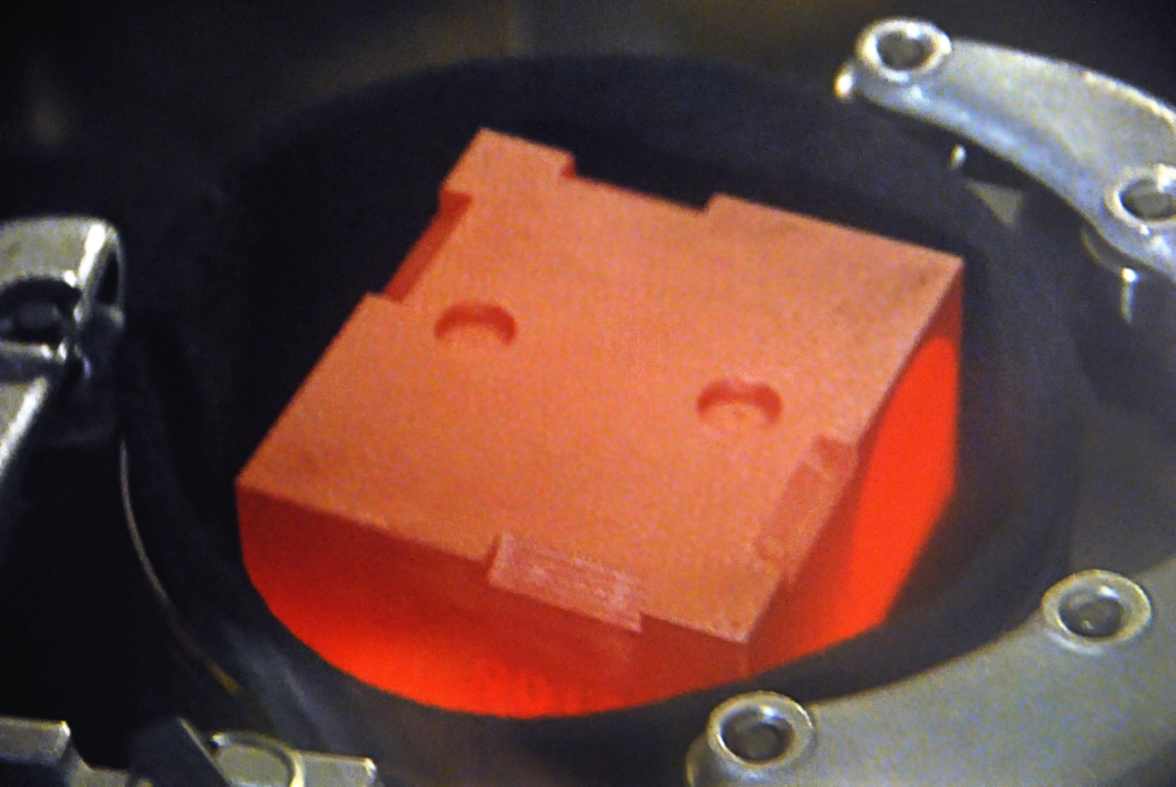 The Mars Science Laboratory’s radioisotope power system was assembled by putting nuclear heat sources within graphite impact shells into high-strength carbon-carbon modules at Idaho National Laboratory. Learn more about this project and view NASA's Curiosity videos at